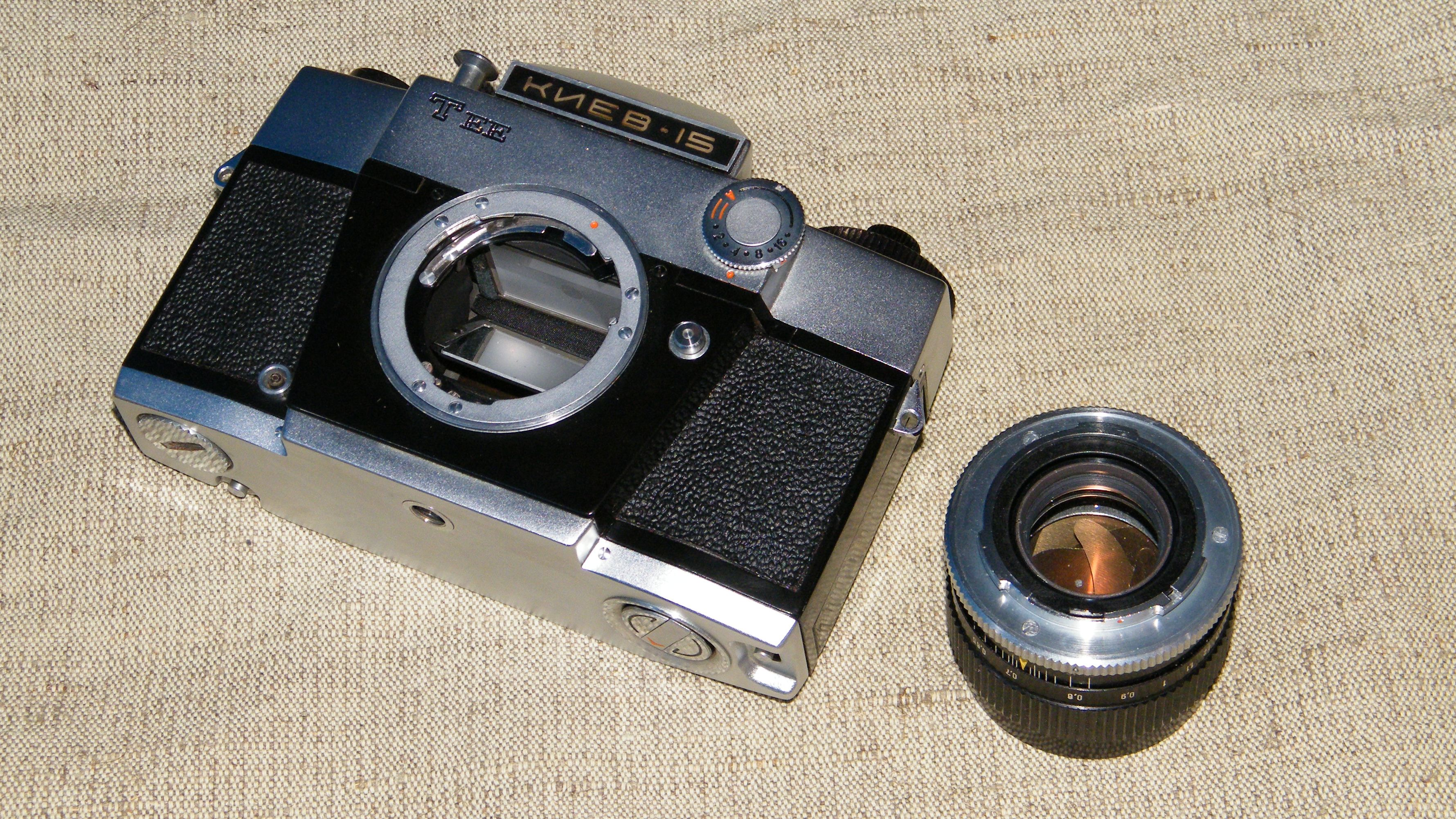 Kiev 15